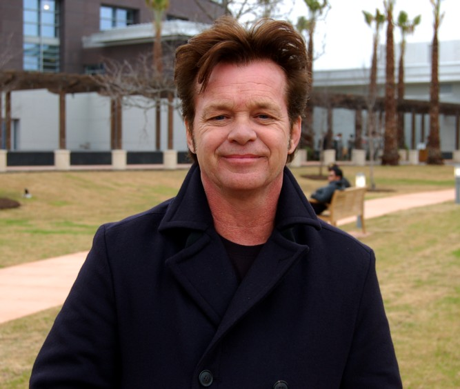 John Mellencamp (singer, songwriter, and guitarist) at Fort Sam Houston, Texas on January 29, 2007 for the official ribbon cutting ceremony of The Center for the Intrepid, a $50 million state-of-the-art physical rehabilitation facility designed for servicemembers wounded in operations Iraqi Freedom and Enduring Freedom. Photo by Peter Rimar.